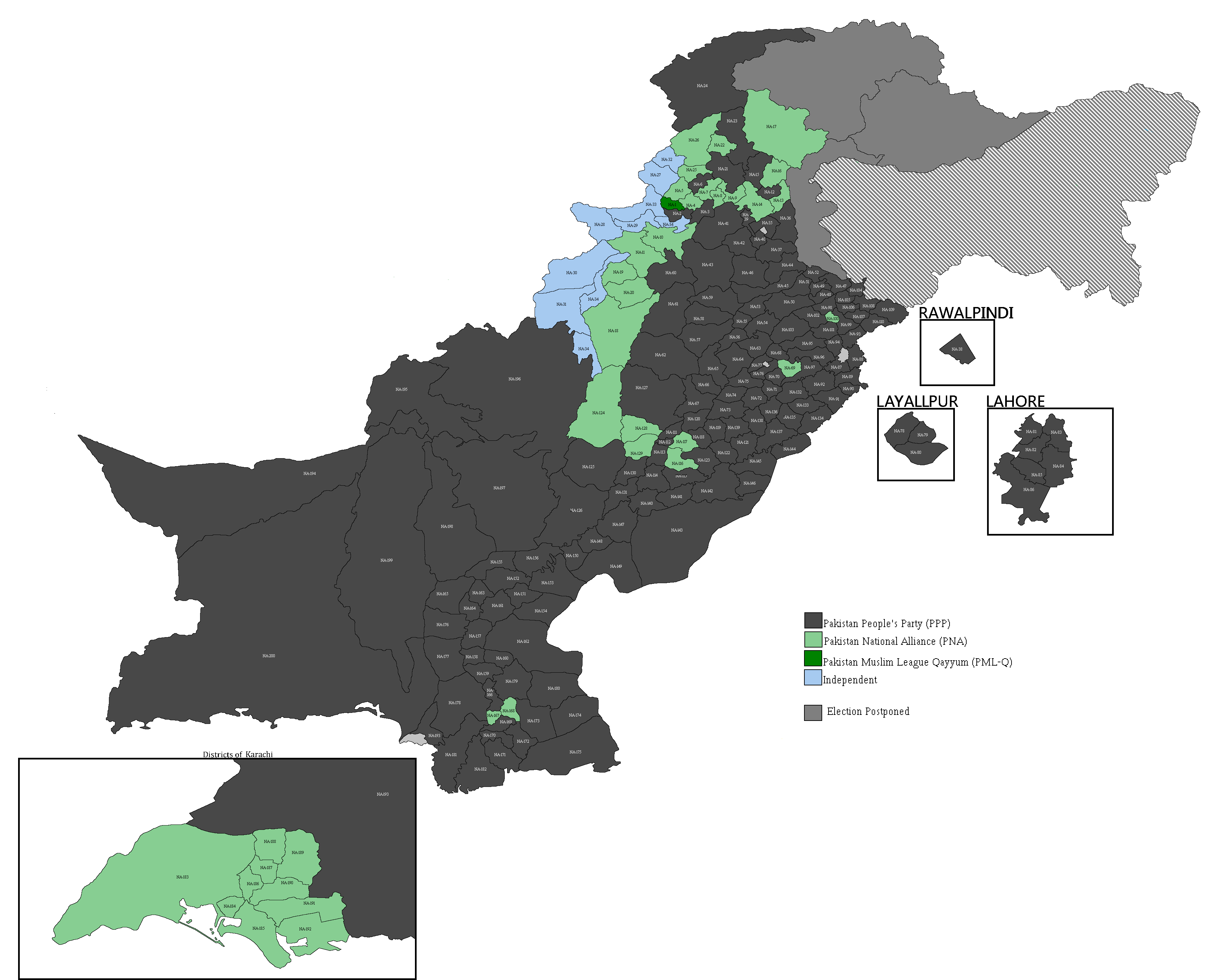 Pakistan Map showing National Assembly Constituencies and Winning parties